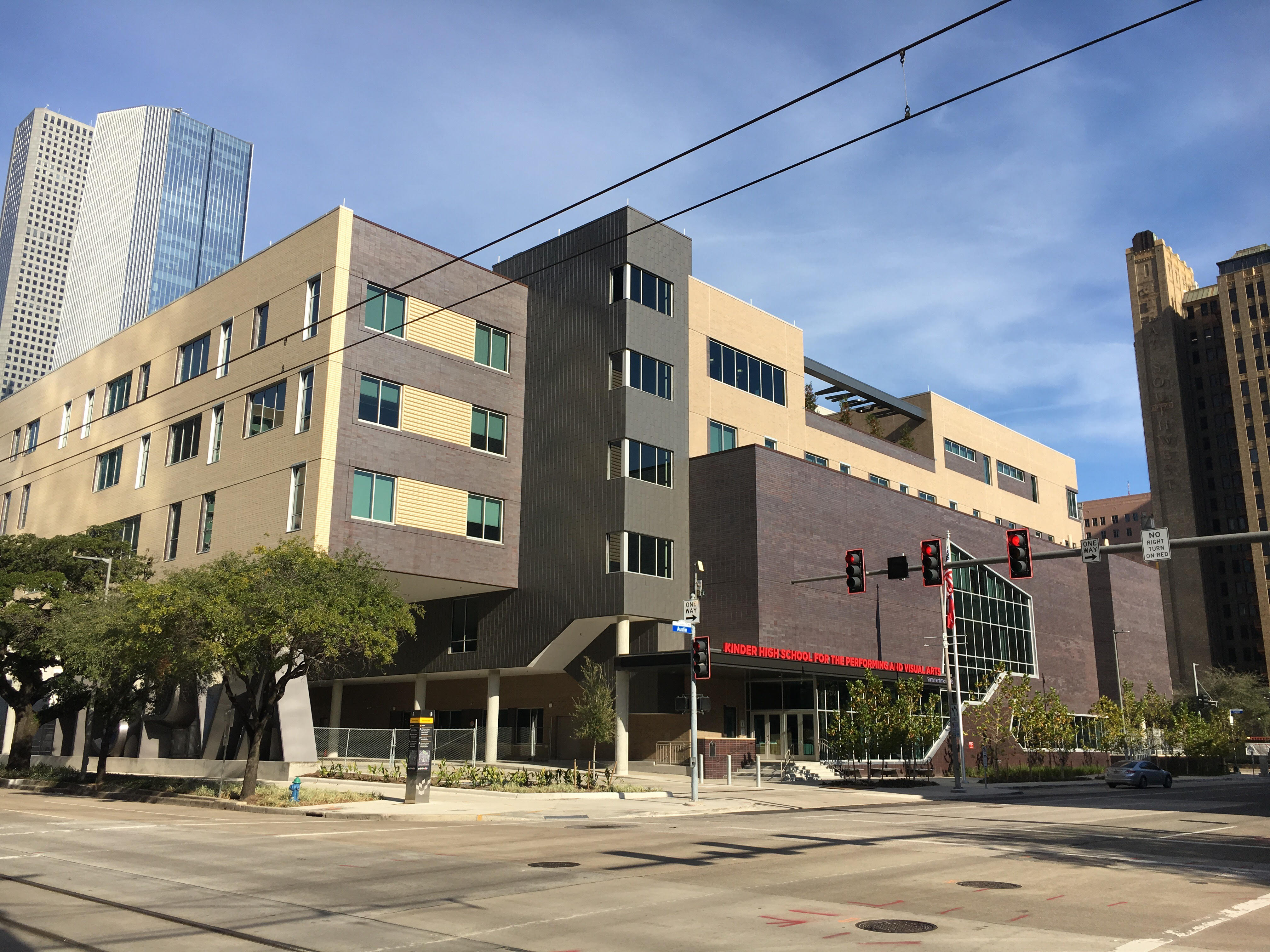 Picture taken of the new Kinder High School for the Performing and Visual Arts (HSPVA) building from the corner of Austin and Rusk. Below the red sign is the main entrance to the school.